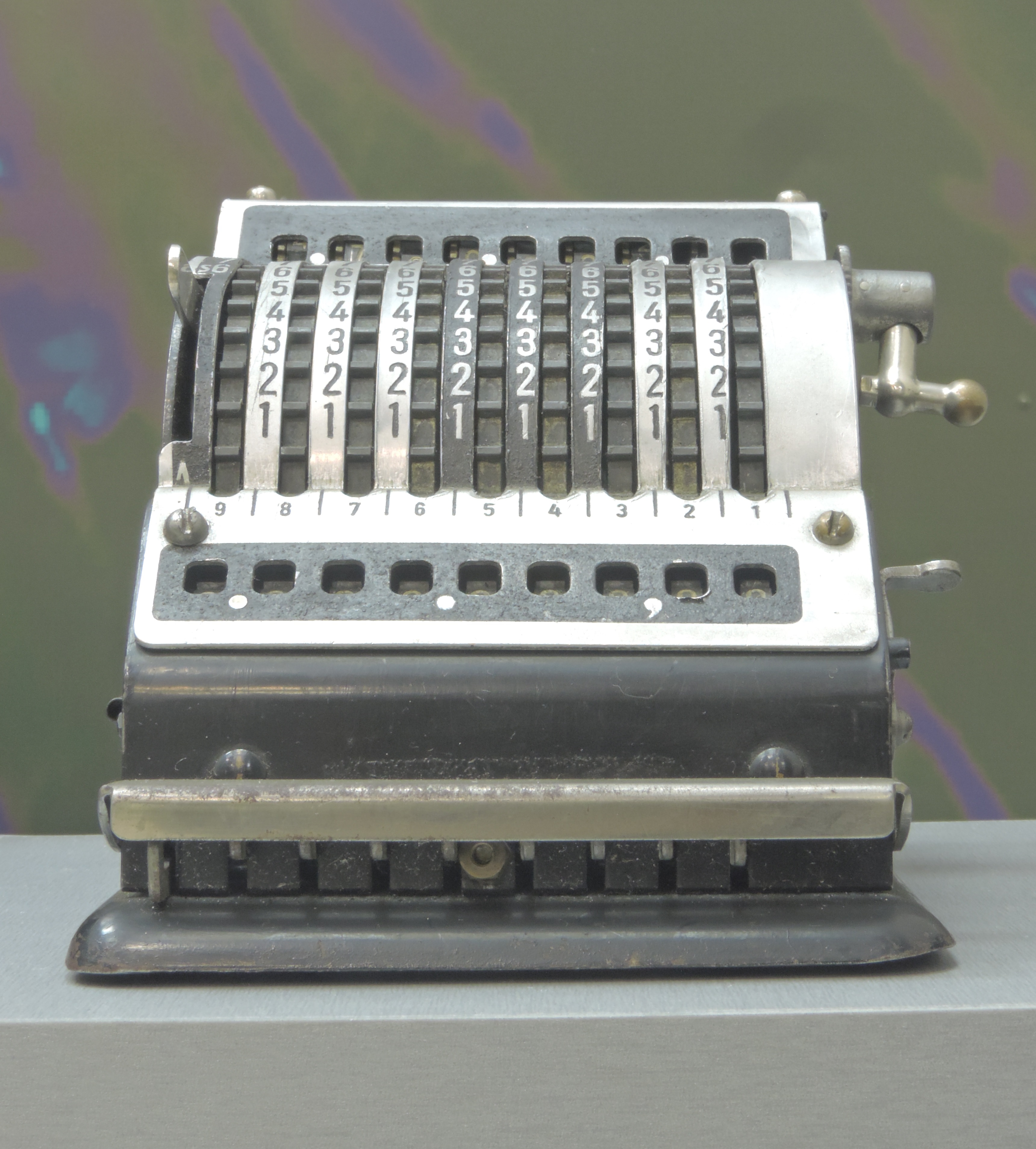 Model of a mechanical calculator Resulta BS9, exhibit of the National Polytechnic Museum, Sofia, Bulgaria